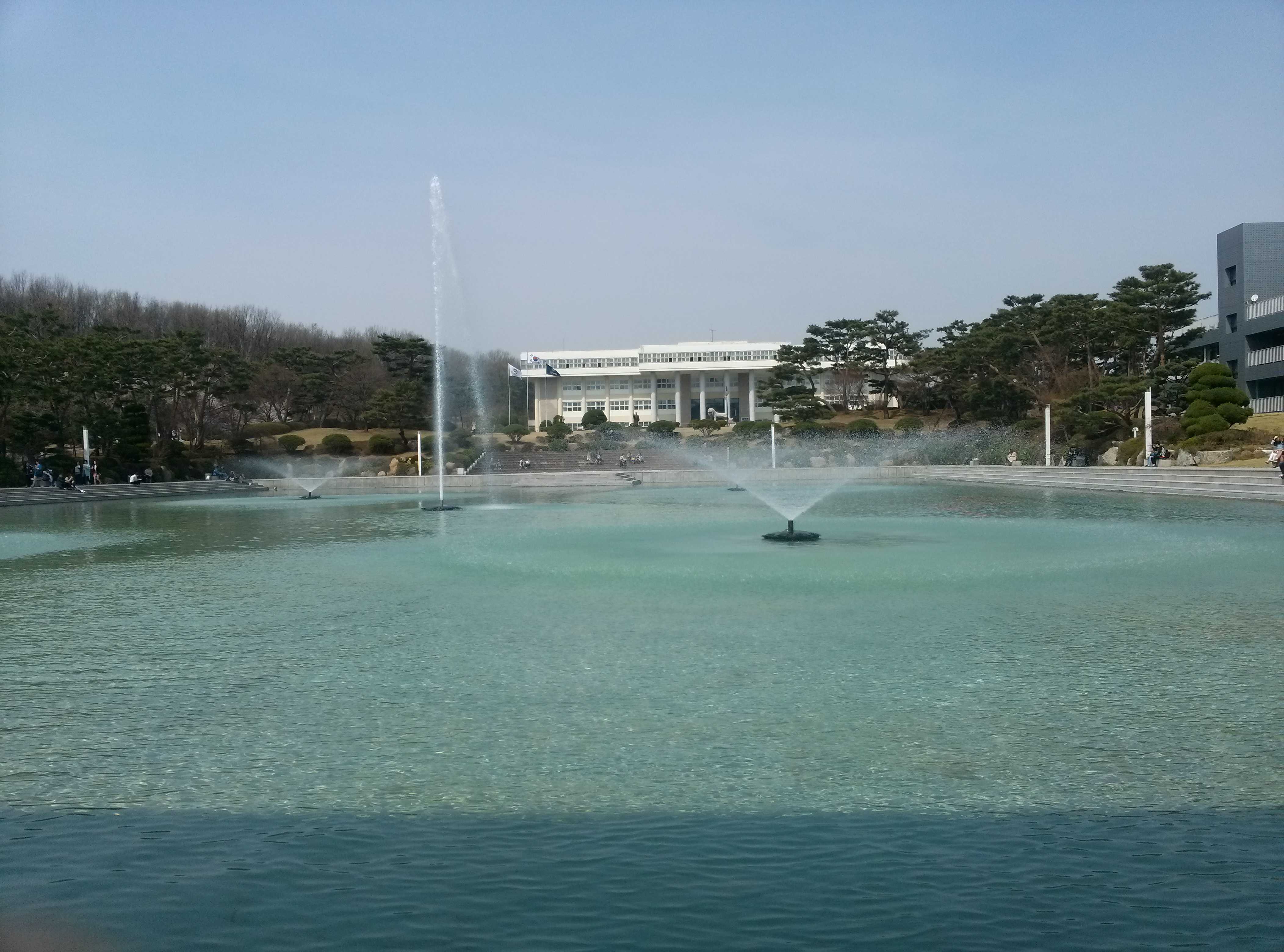 Hanyang University ERICA campus